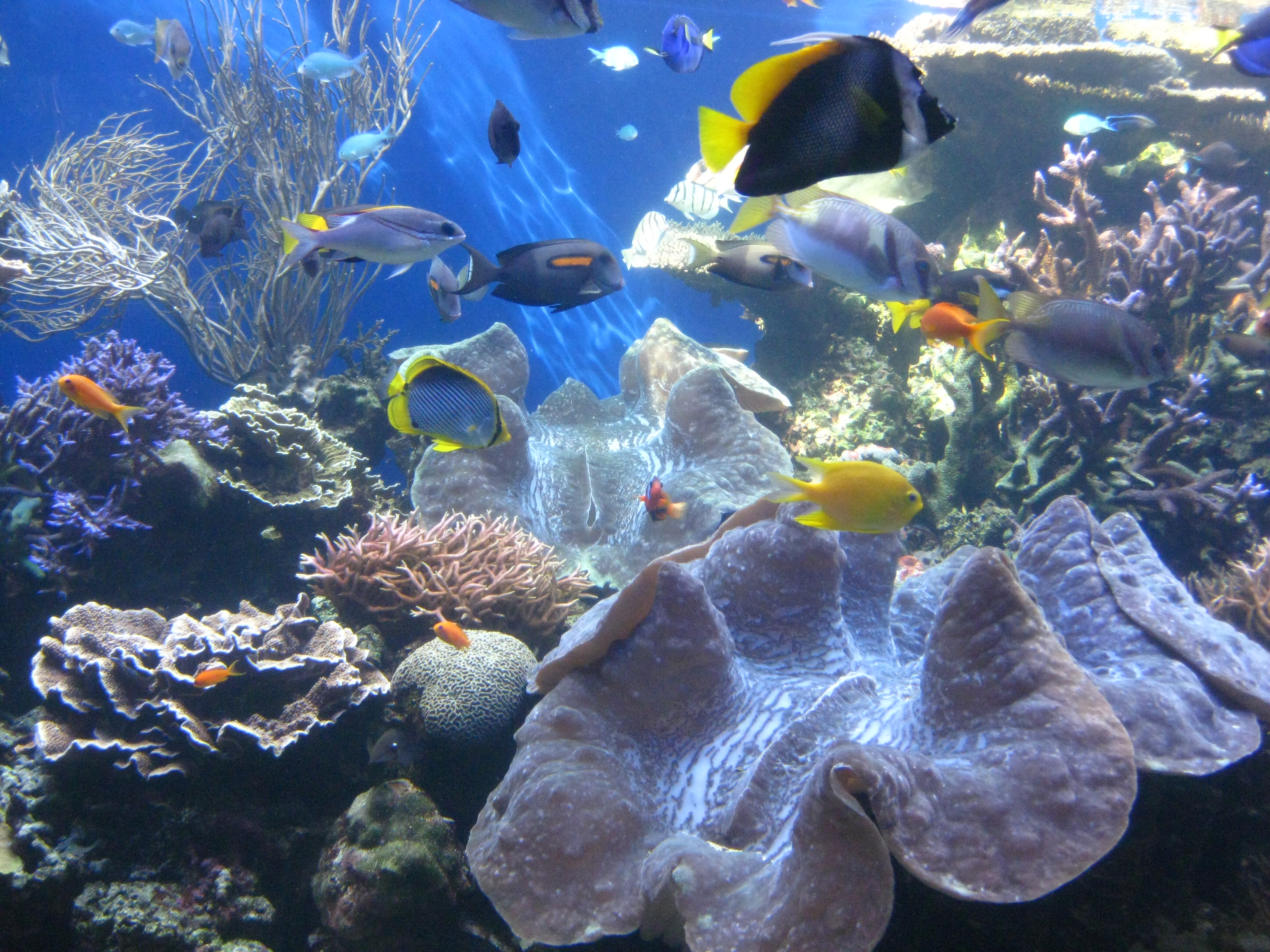 Aquarium exhibit at Waikiki Aquarium with giant clams, several fish and coral.